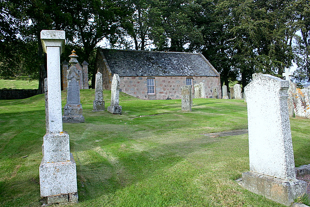 St Finan's Kirk The ancient church of Migvie, dedicated to St. Finan (spelt variously St Finnan, St Finian and St Finnian), was granted to the priory of St Andrews in the late 12th century. The Name Book (1866) records that 'part of a wall and the track of the foundations of the former church were visible in front of the present church' in 1866. All that can be seen of the old church is a slight mound with grass-covered footings about 6.0m wide and of indefinite length. The building behind is the later Migvie Parish Kirk.[1] has more details. The 'Cross' marked on the map is no longer in the kirkyard. It has been moved into the kirk to protect it from further erosion. Thanks to Stan Howe for information.